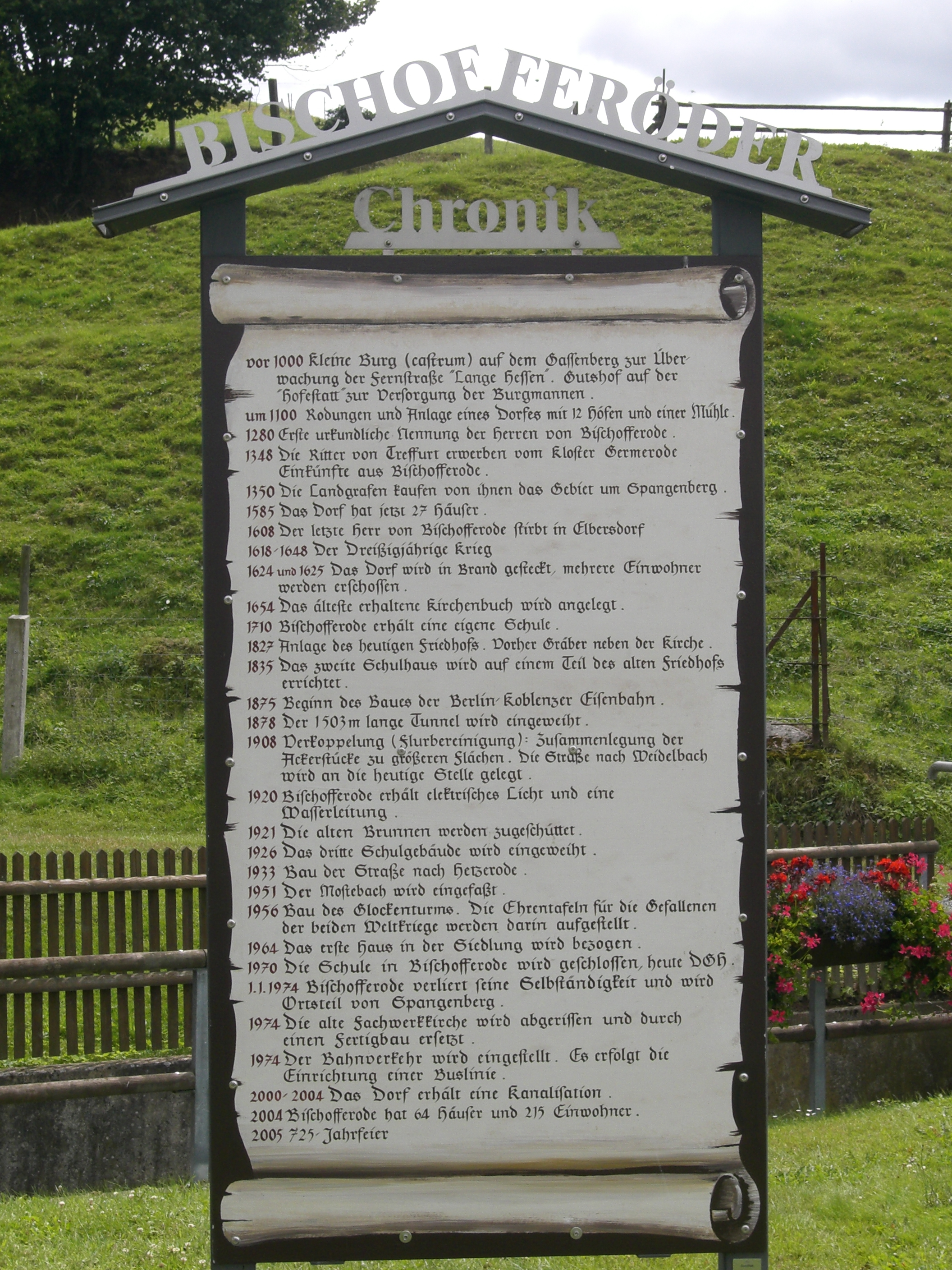 Board displaying the history of Bischofferode in Spangenberg-Bischofferode, Hesse, Germany (Text in German)